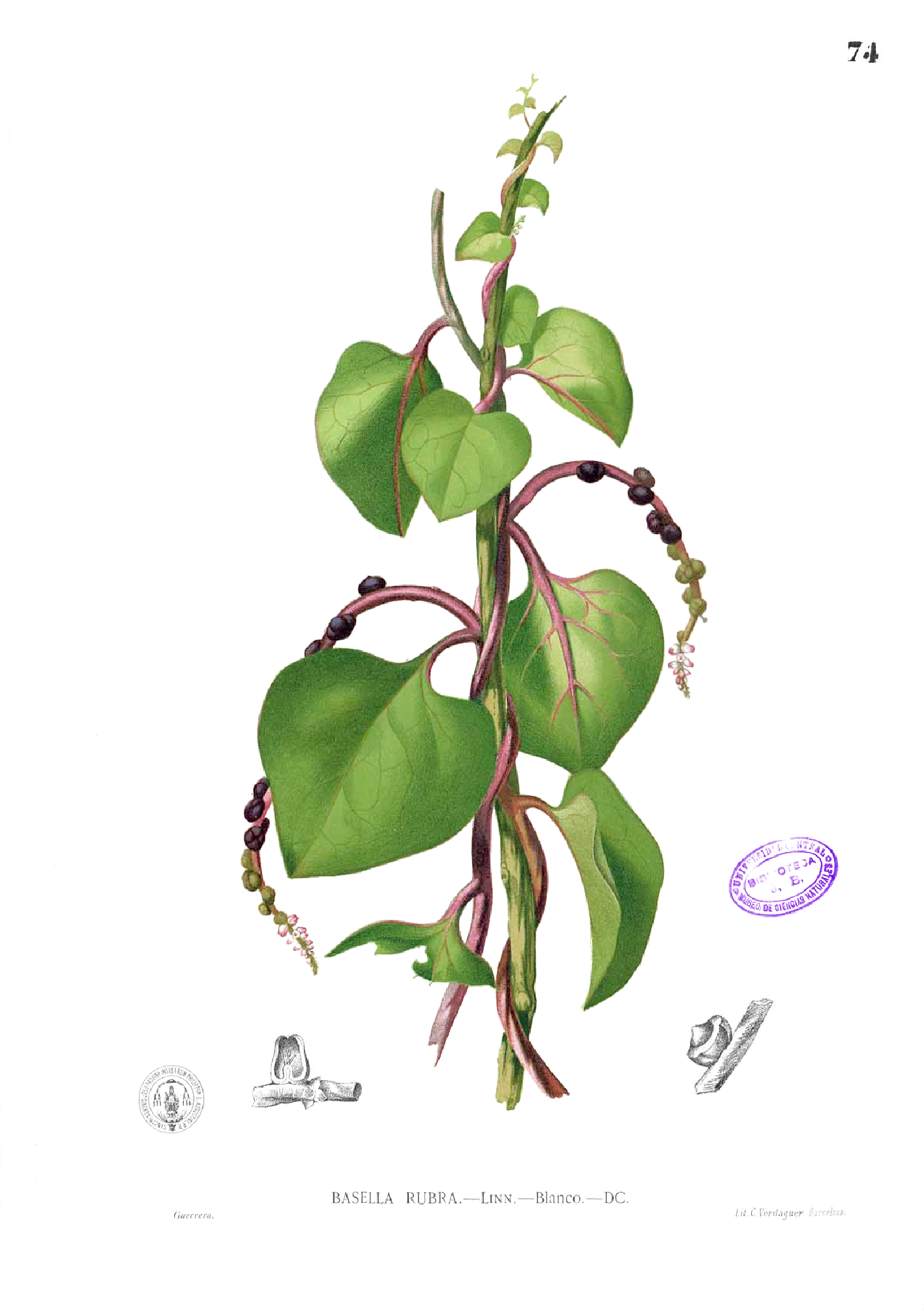 Plate from book